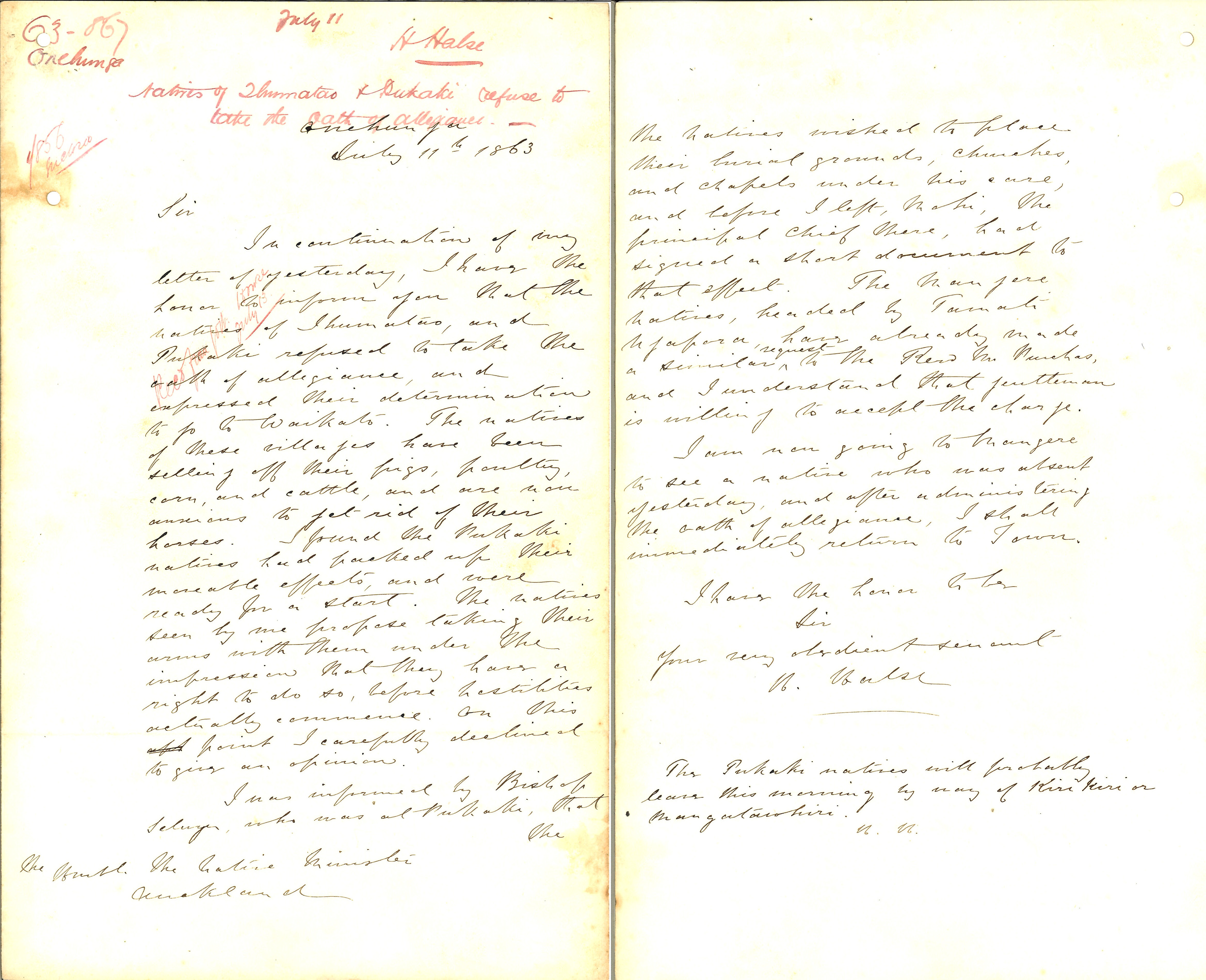 Received: 11 July 1863 From: H. Halse, Onehunga. Subject: Natives of Ihumatao and Pukaki refuse to take the oath of allegiance Archives New Zealand Reference: ACIH 16036 MA1 836 / 1863/867